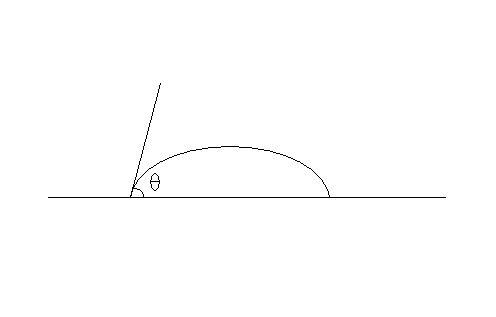 Schematic of Contact Angle